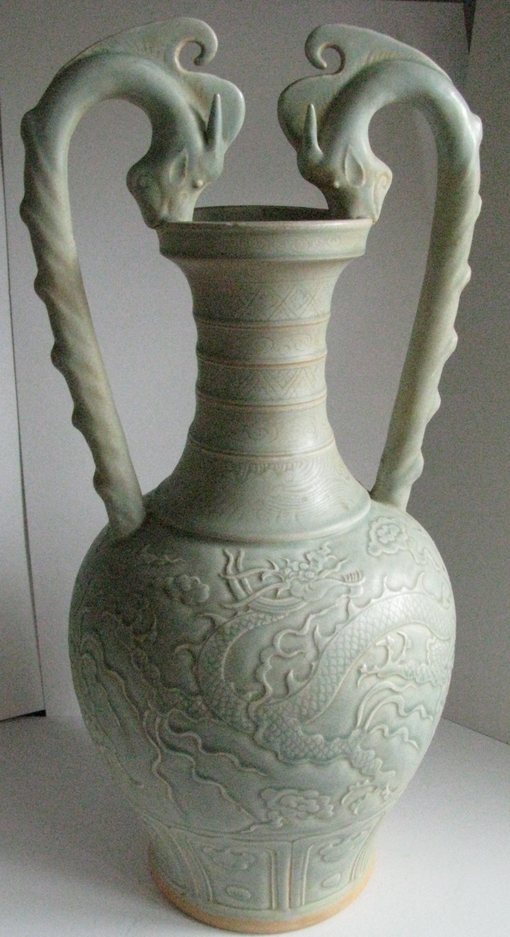 Song or Yuan Dynasty celadon ware: two dragon handle amphora